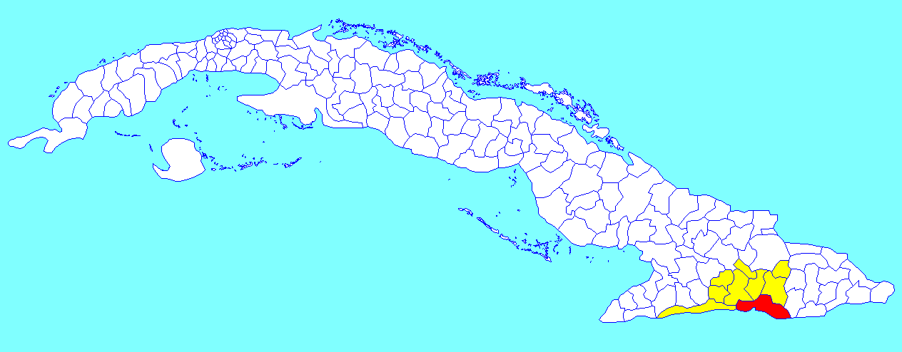 Locator map of the municipality of Santiago de Cuba (shown in red) — within the Province of Santiago de Cuba (yellow), southeastern Cuba.